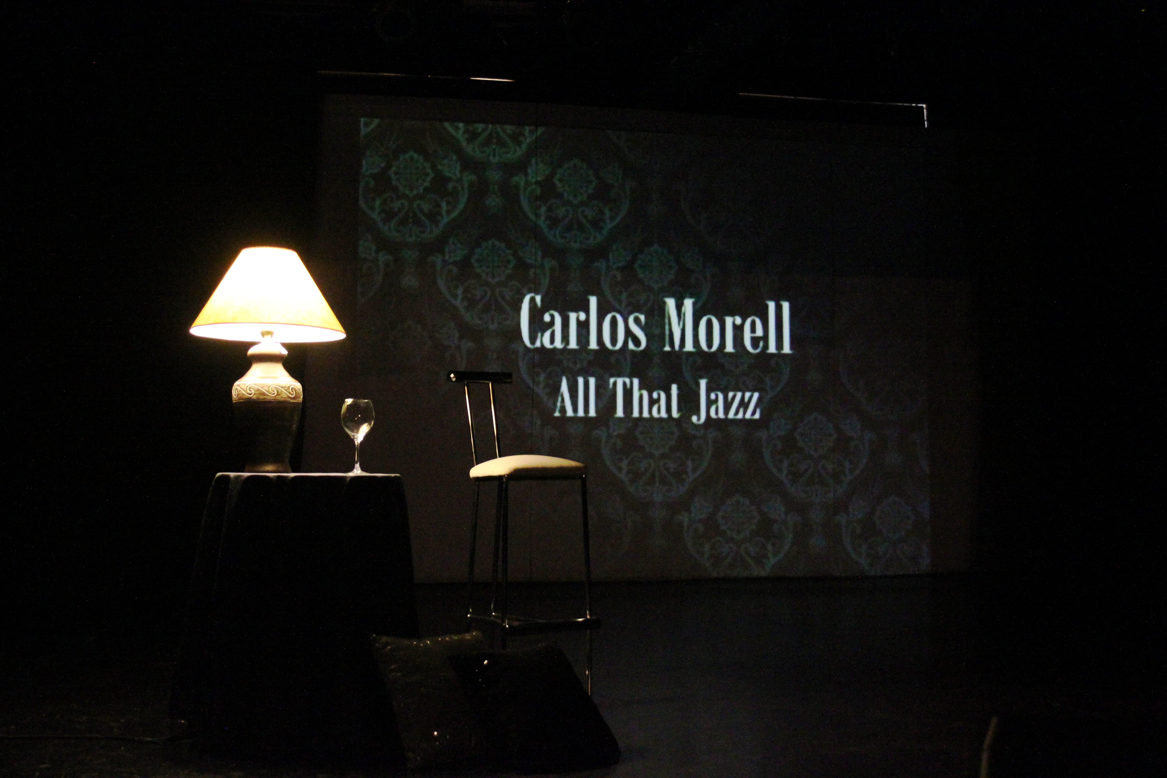 Part of the show "All that jazz", by Carlos Morell